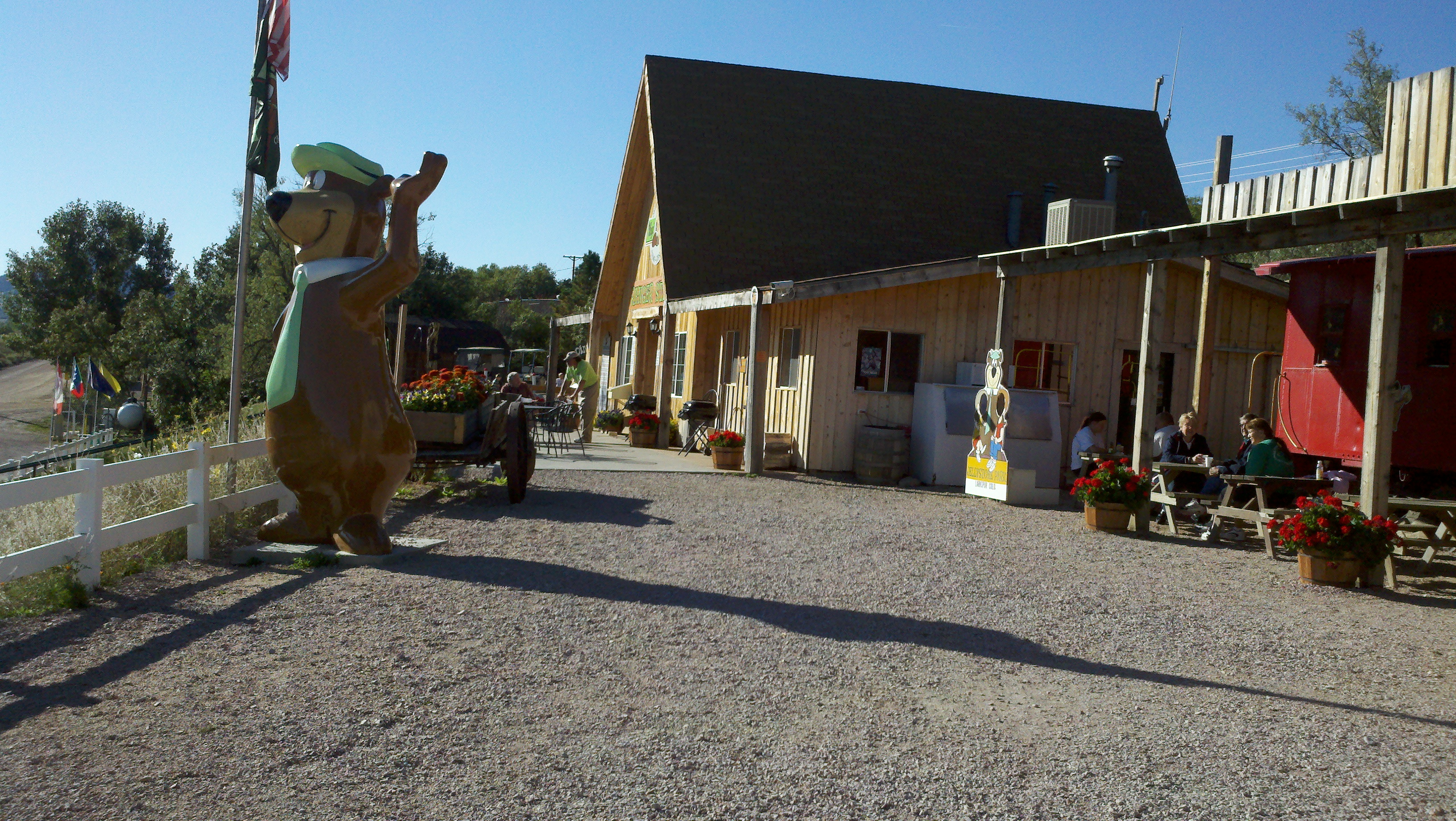 Yogi at JellyStone Park, CO